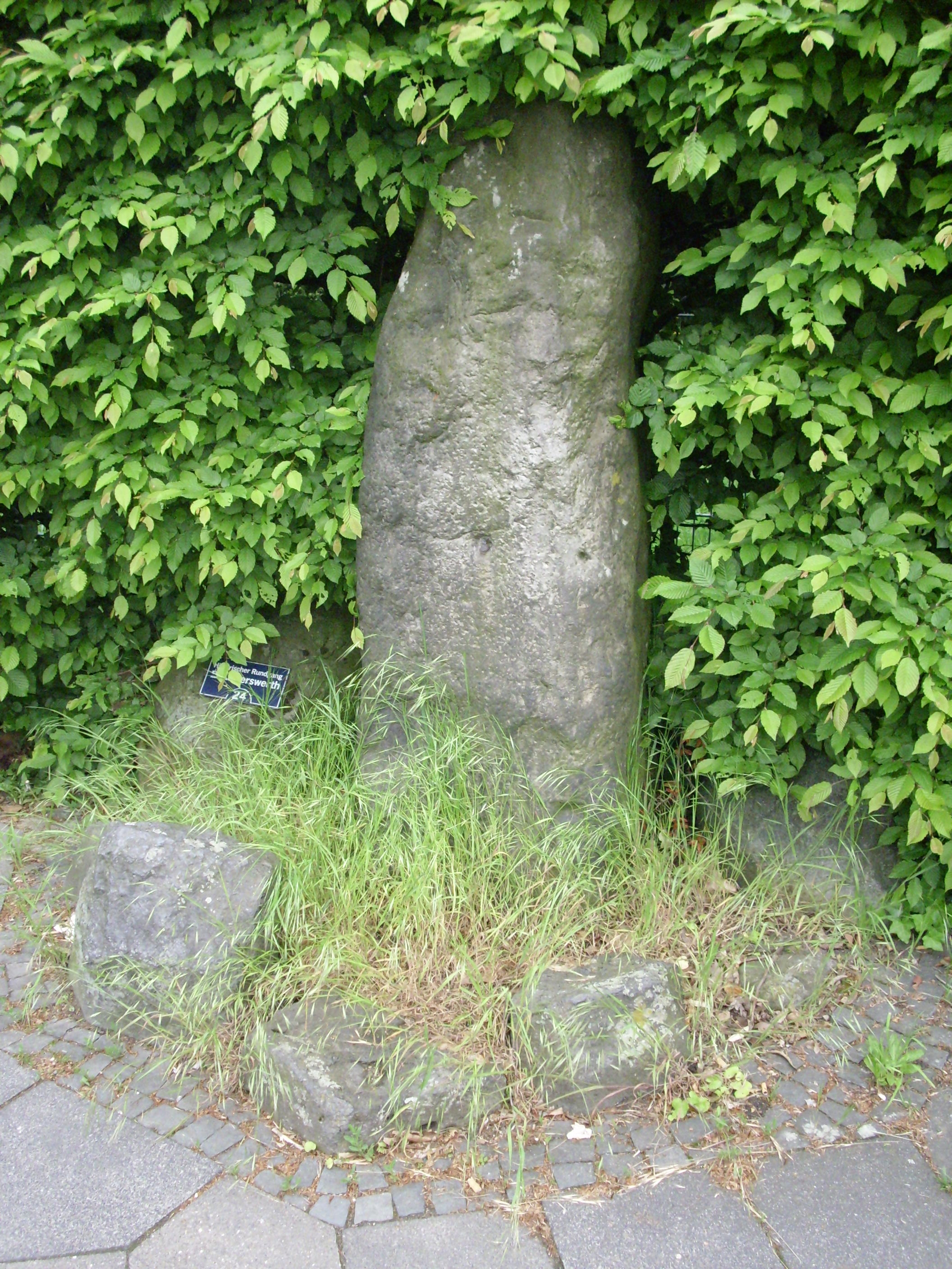 The Menhir of Kaiserswerth in Düsseldorf Kaiserswerth, a pre-historic stone (2000-1500 BC). Oldest historic monument in Kaiserswerth and in whole Düsseldorf. From the right side.